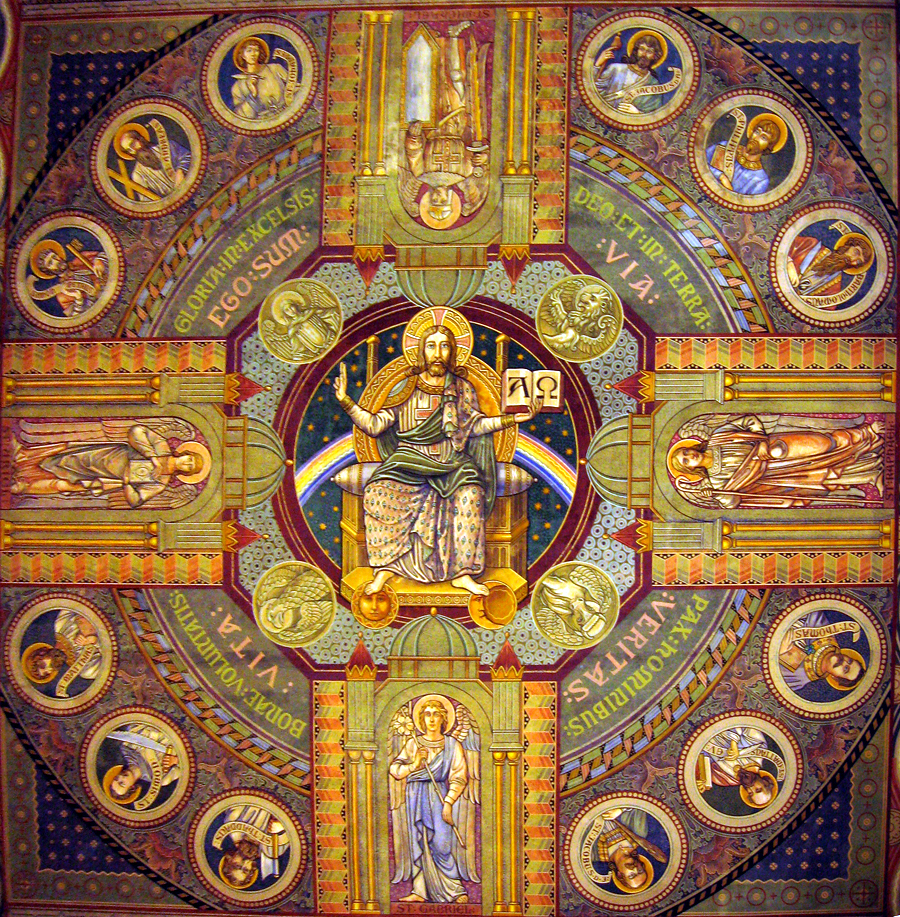 The Lutheran Ascension Church at Augusta Victoria Foundation, Jerusalem; ceiling within Ascension Church.